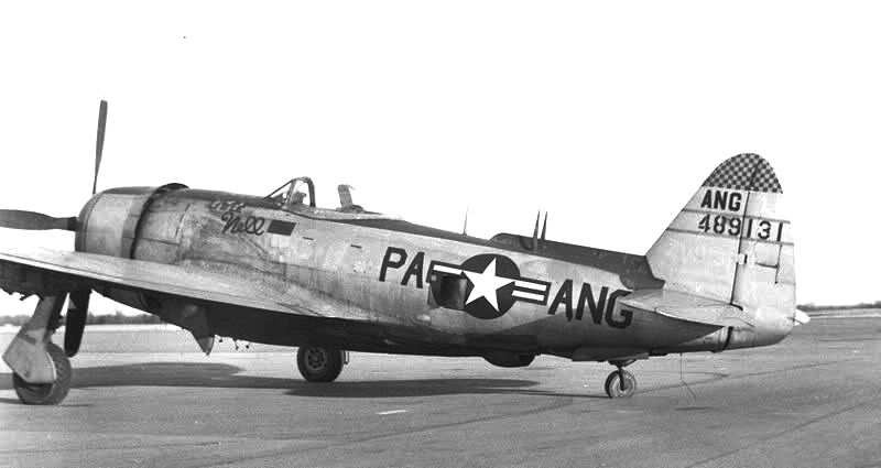 112th Fighter Group Republic F-47N-20-RE Thunderbolt 44-89131